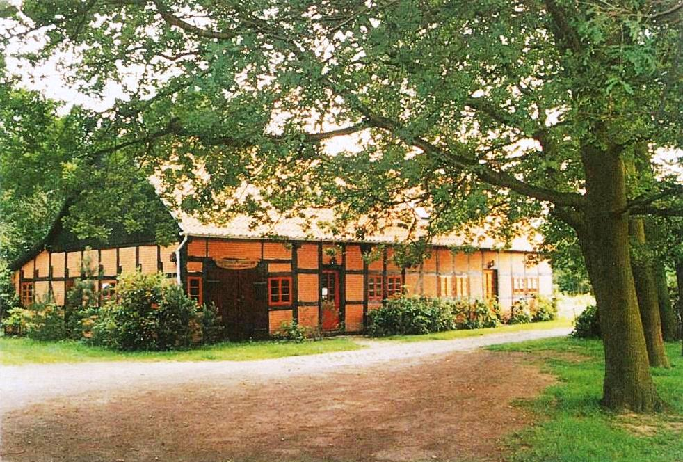 Torfschiffswerft Schlussdorf: The timer-framed boatyard building in 1992, formerly owned by the Grotheer family, now a museum